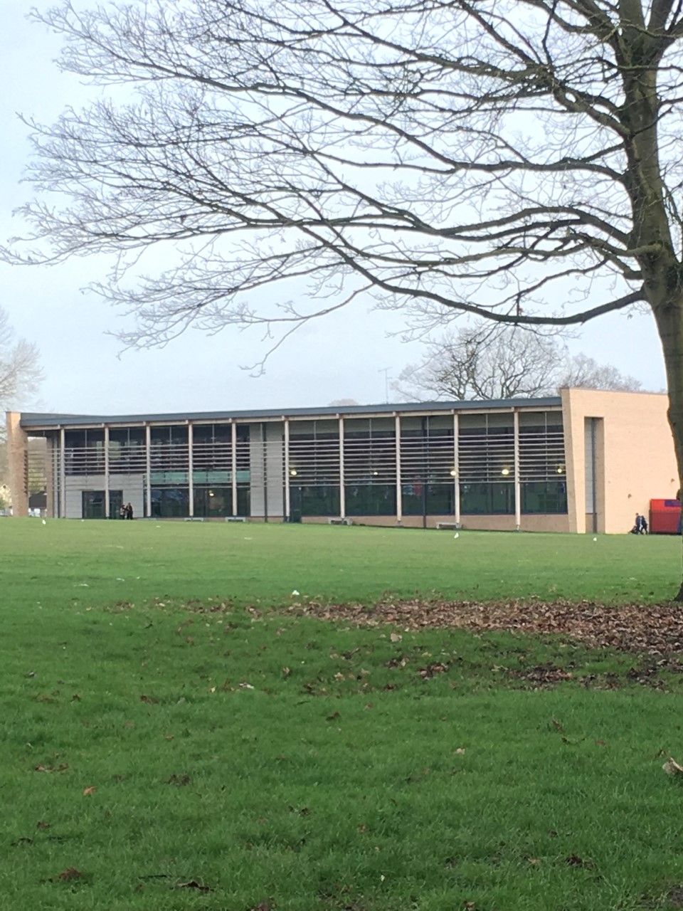 An image of New Barnet Leisure Centre looking across Victoria Recreation Ground